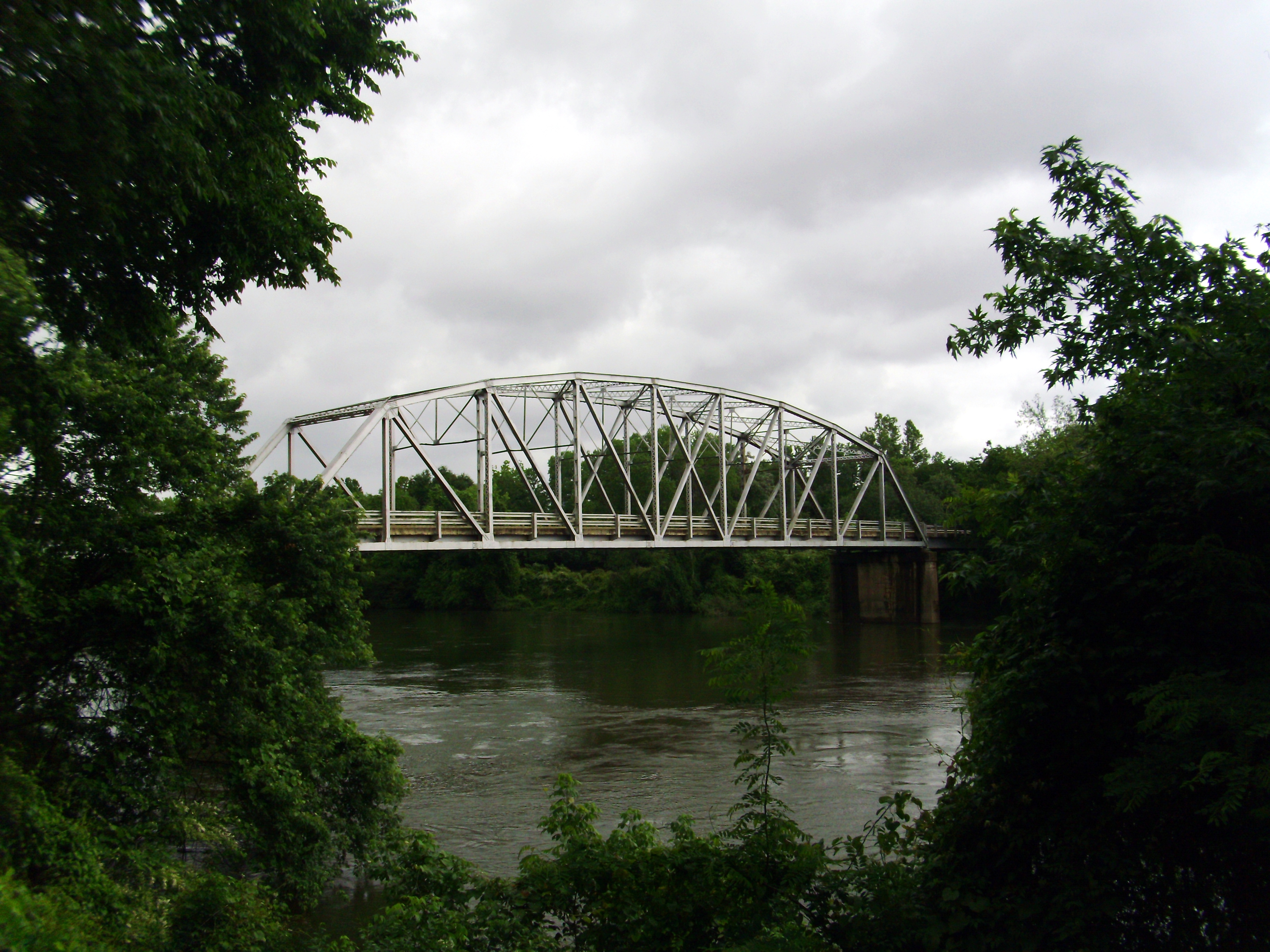 1933 Parker Through Truss spanning the Ouachita River